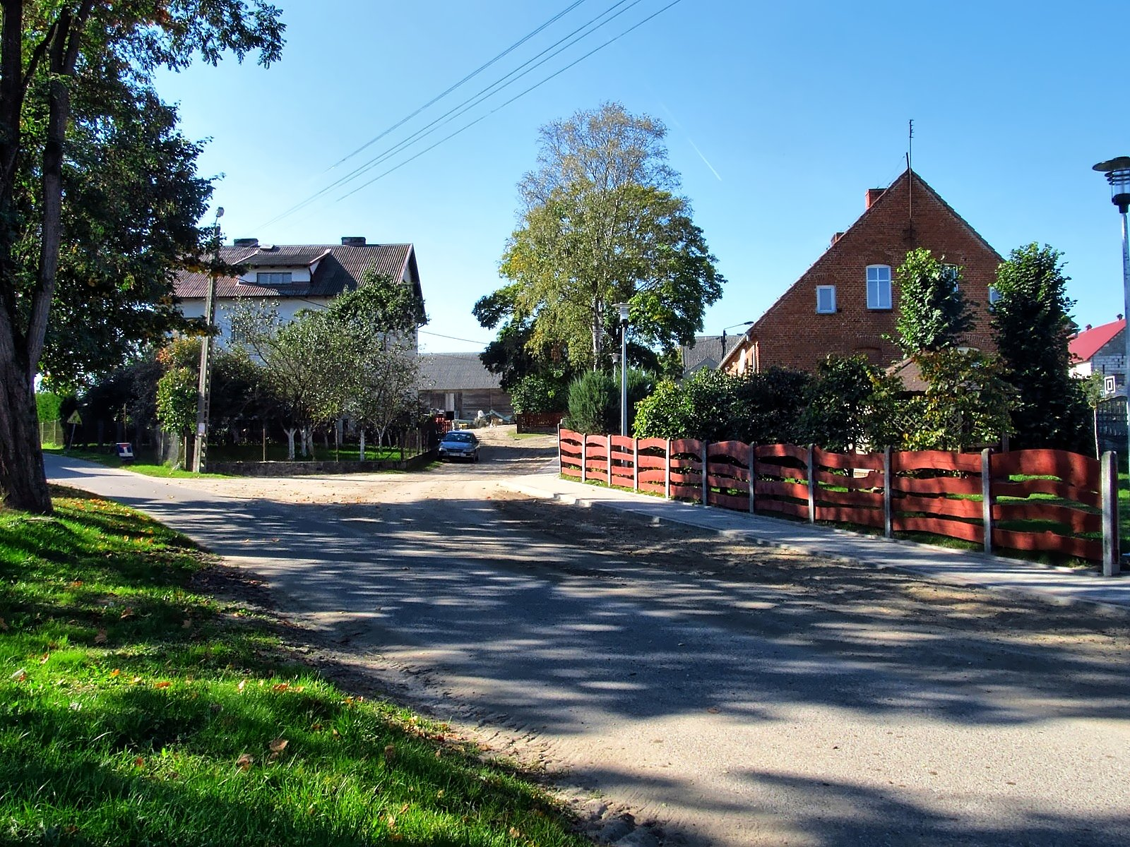 She was a school, Isidore Memorial Chamber Gulgowskiego